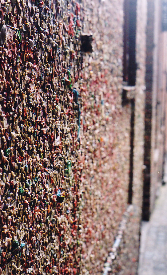 Chewing gum stuck to wall in Seattle, WA, USA photo: Henry A-W (Henry aw 07:16, 21 July 2006 (UTC))